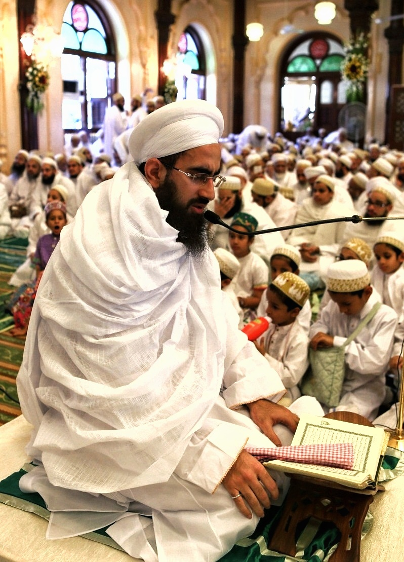 Hussain bin Syedi Mufaddal Saifuddin reading Quran in Mumbai